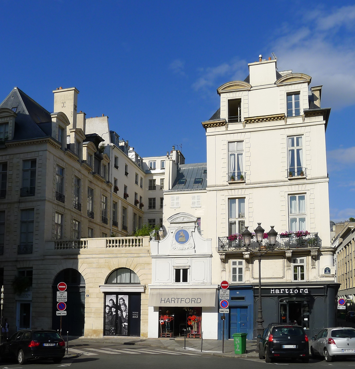 Vide-Gousset street - Paris